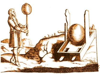 Otto Guericke electrical device.